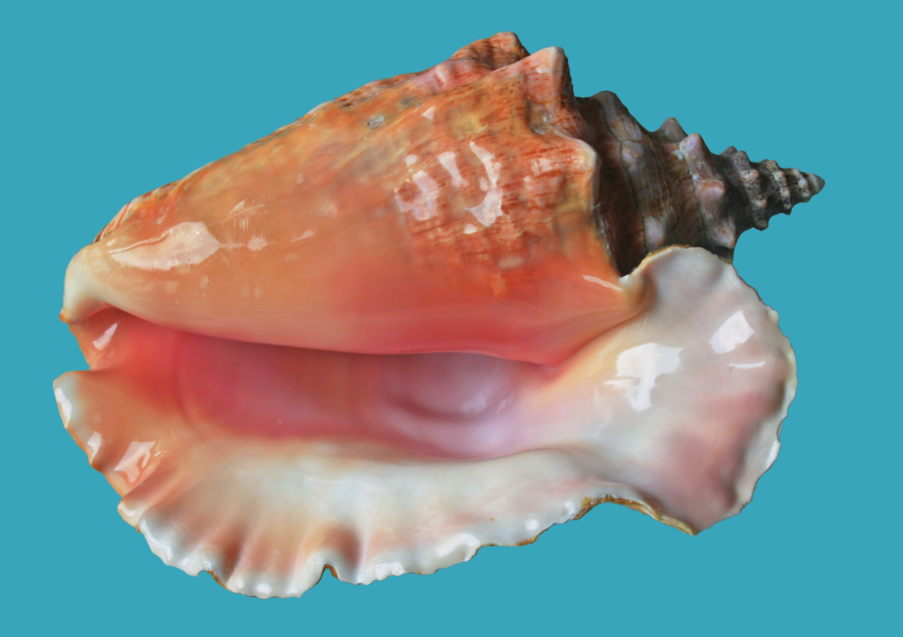 Strombus gigas = Eustrombus gigas